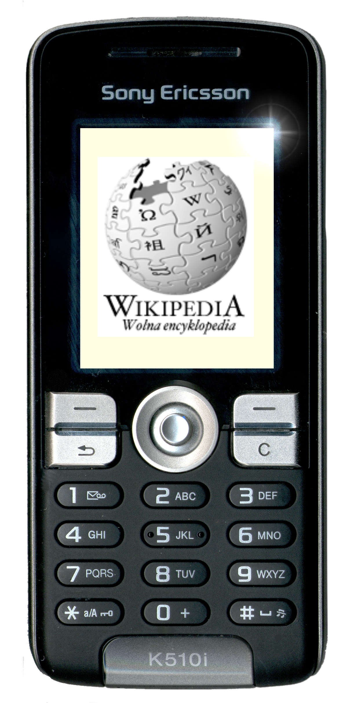 Sony Ericsson K510i